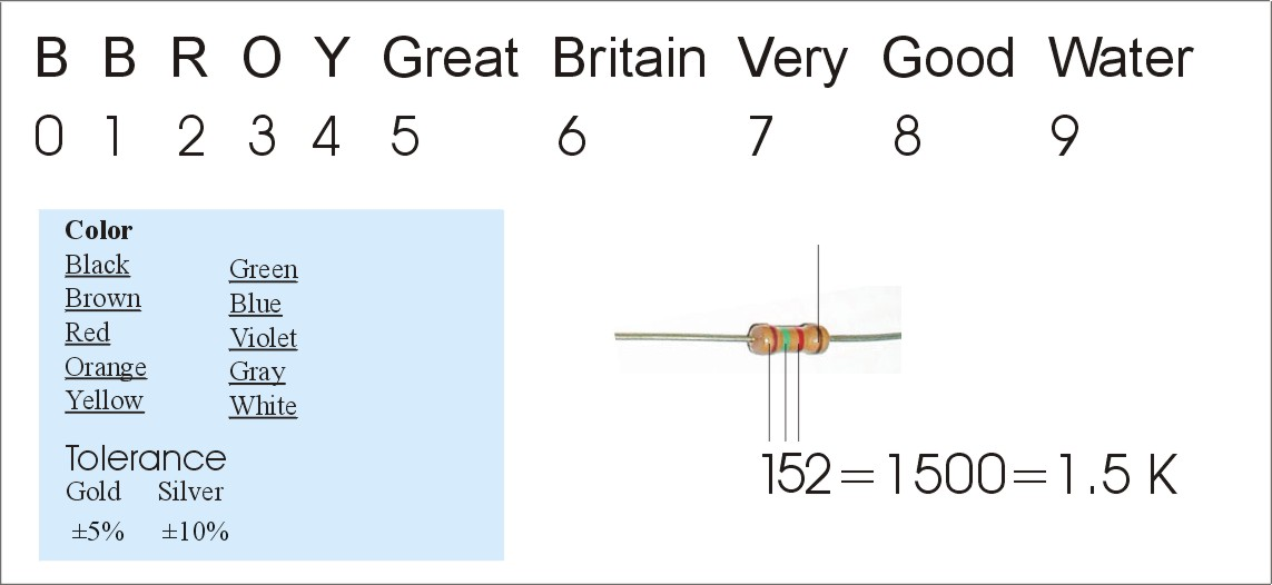 Resistors color code details.